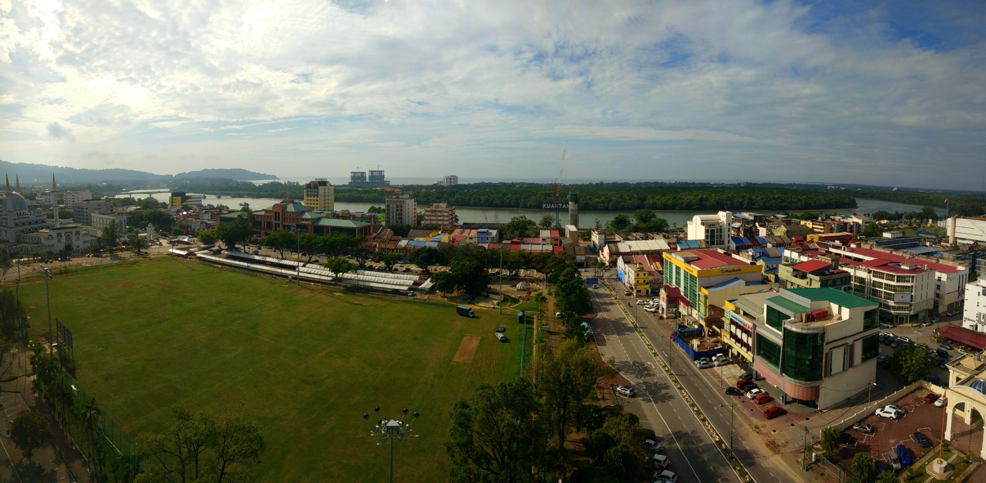 Panoramic view of Kuantan at the bank of Kuantan River